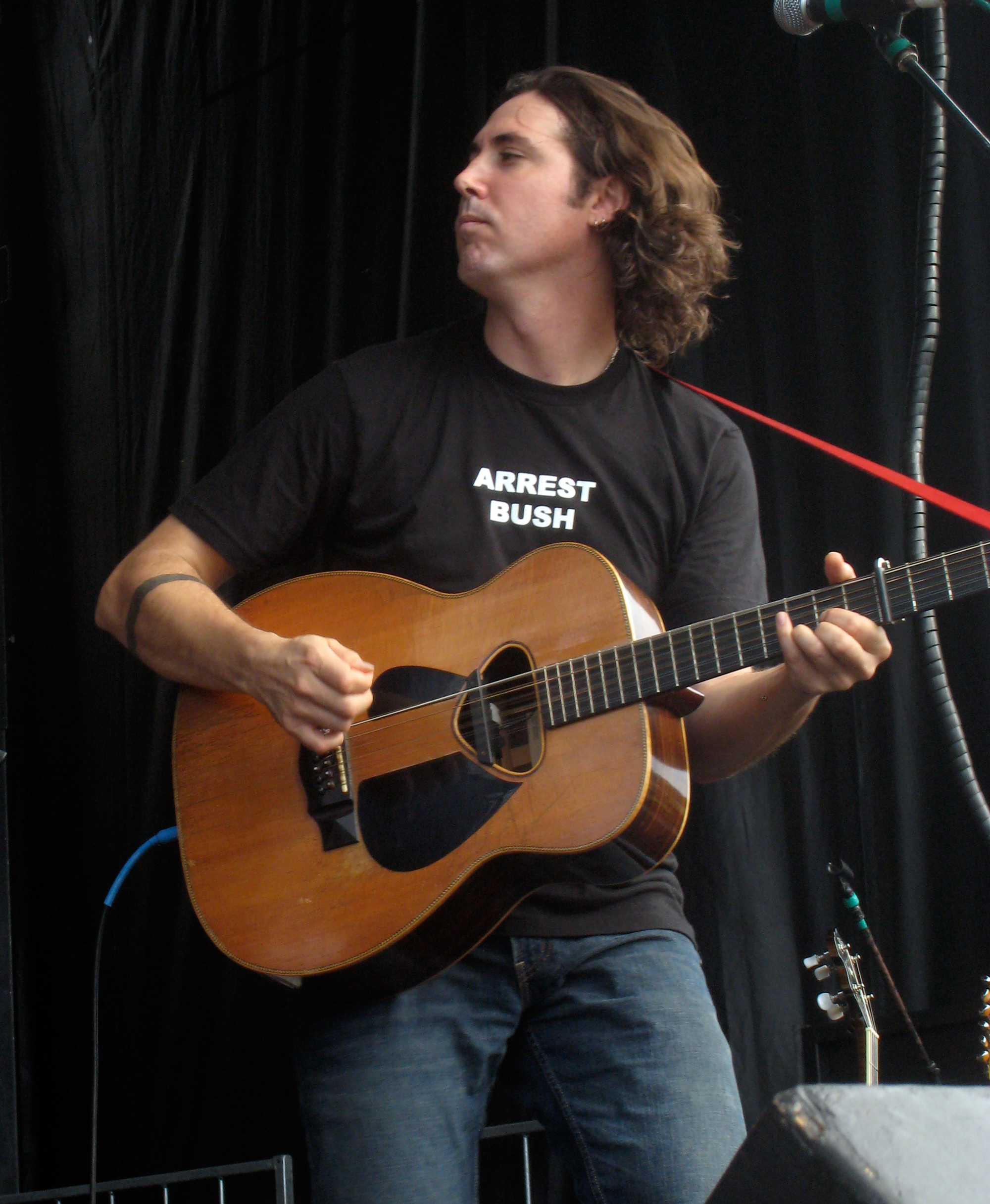 Tao Rodriguez of The Mammals on the Meadow Stage at MagnoliaFest, Live Oak FL. I love his t-shirt! He is the grandson of folk musician Pete Seeger